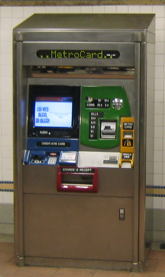 MetroCard Vending Machines (MVMs) like they are located in all New York City Subway stations. The MVMs were first introduced in January 1999 and are now found in two models. Standard MVMs as seen on the left are large boxes that accept cash, credit cards, and ATM or debit cards. The smaller version on the right only accept credit and ATM/debit cards. However, both machines allow a customer to purchase every type of MetroCard and can also add fares to previously issued MetroCards. The machines are operated through a touch screen. Moreover they are compliant with the Americans with Disabilities Act of 1990 through use of braille and a headset jack, which is programmed through the keypad.